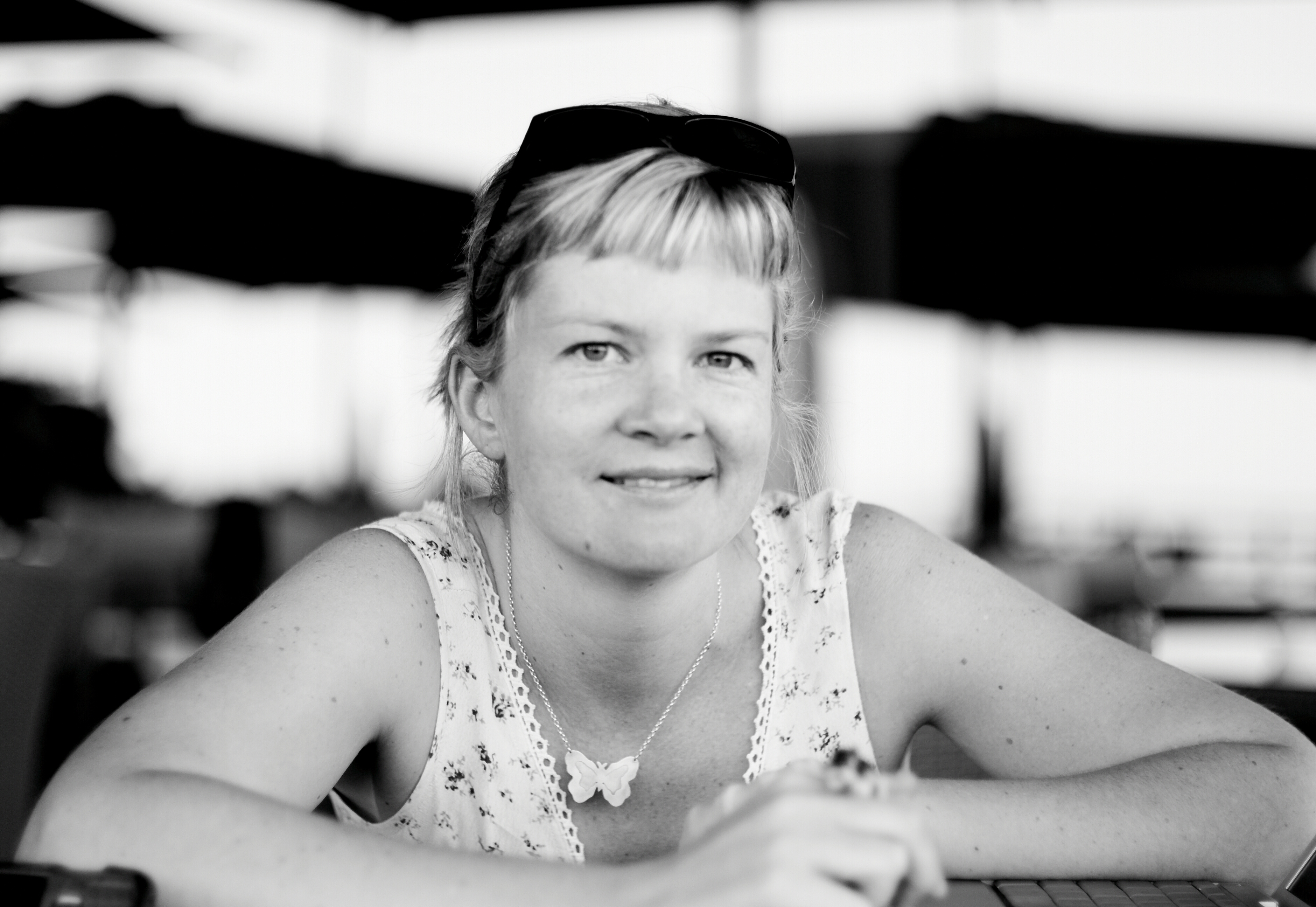 Photograph of "Heather Ford" by "Joi Ito". Taken at the "iCommons" iSummit held in Dubrovnik, Croatia, June 14-18 2007. Updated CC attribution license: Creative Commons Attribution 3.0 "Some Rights Reserved"